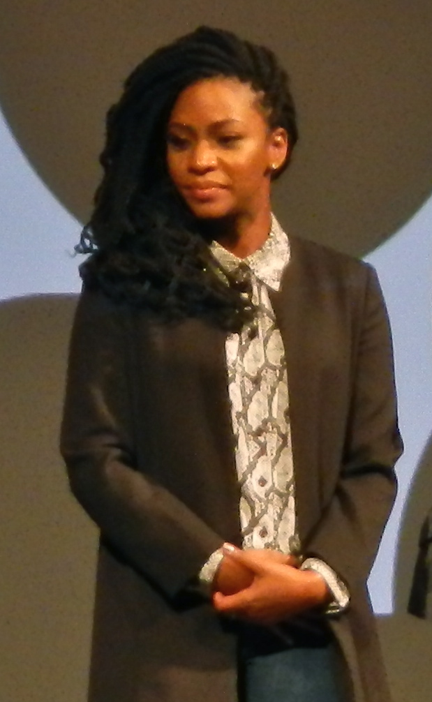 "They Came Together" at Sundance 2014